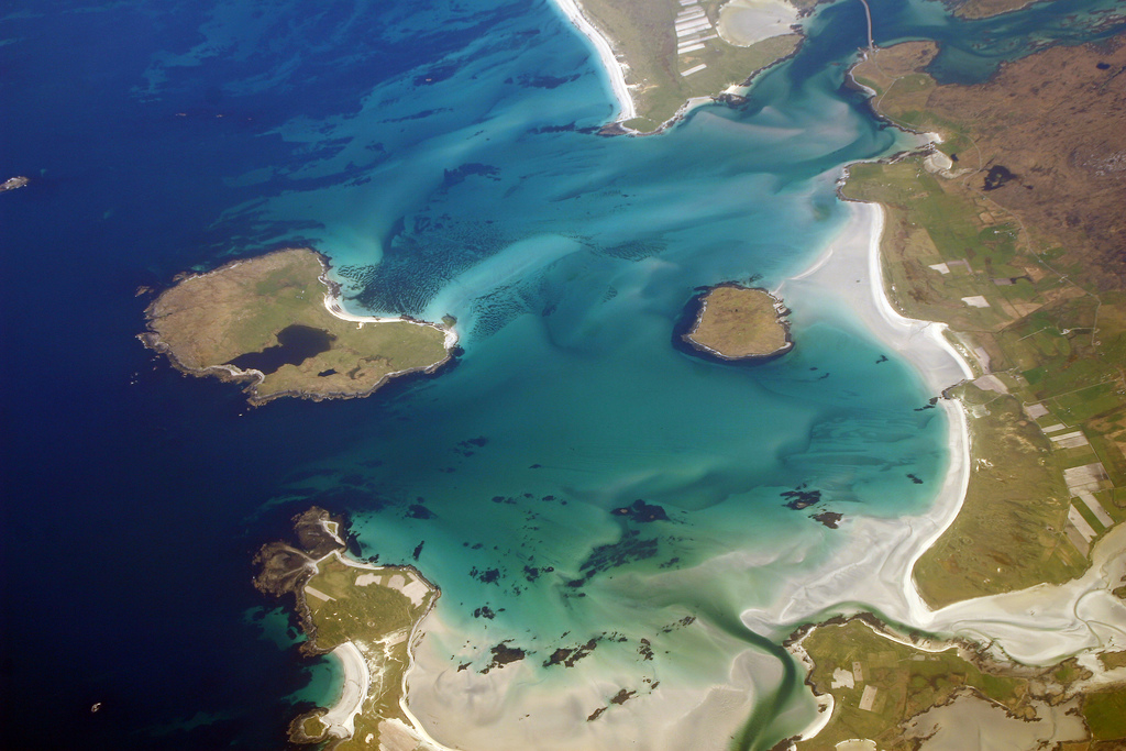 Boreray (left), Lingeigh (center), Berneray (top) and North Uist (right) from sky, Outer Hebrides, Scotland